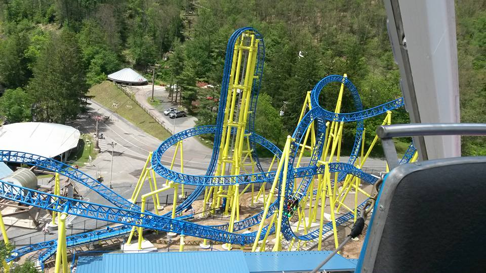 The Impulse is a roller coaster at Knoebels in Elysburg, Pennsylvania, United States. Seen from the Ferris wheel.